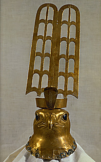 Head of a Falcon God (Cairo, Egyptian Museum, JE 32158, H= 37.5 cm). This is a votive object belonging to a bronze statue of the falcon Horus, patron deity of Hierakonpolis (near Edfu), the predynastic capital of Upper Egypt. Its head was executed by means of beating the gold then connecting it with the copper body. A uraeus is fixed to the diadem which supports two tall openwork feathers. The eyes are inlaid with obsidian. Gold and obsidian; Old Kingdom (6th dynasty).